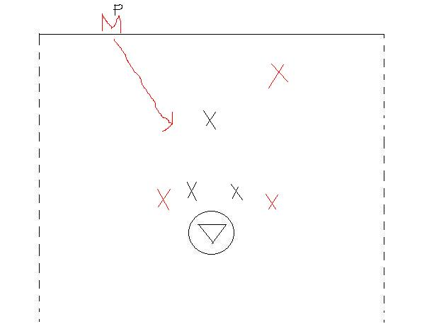 Image of L fast break formation in lacrosse